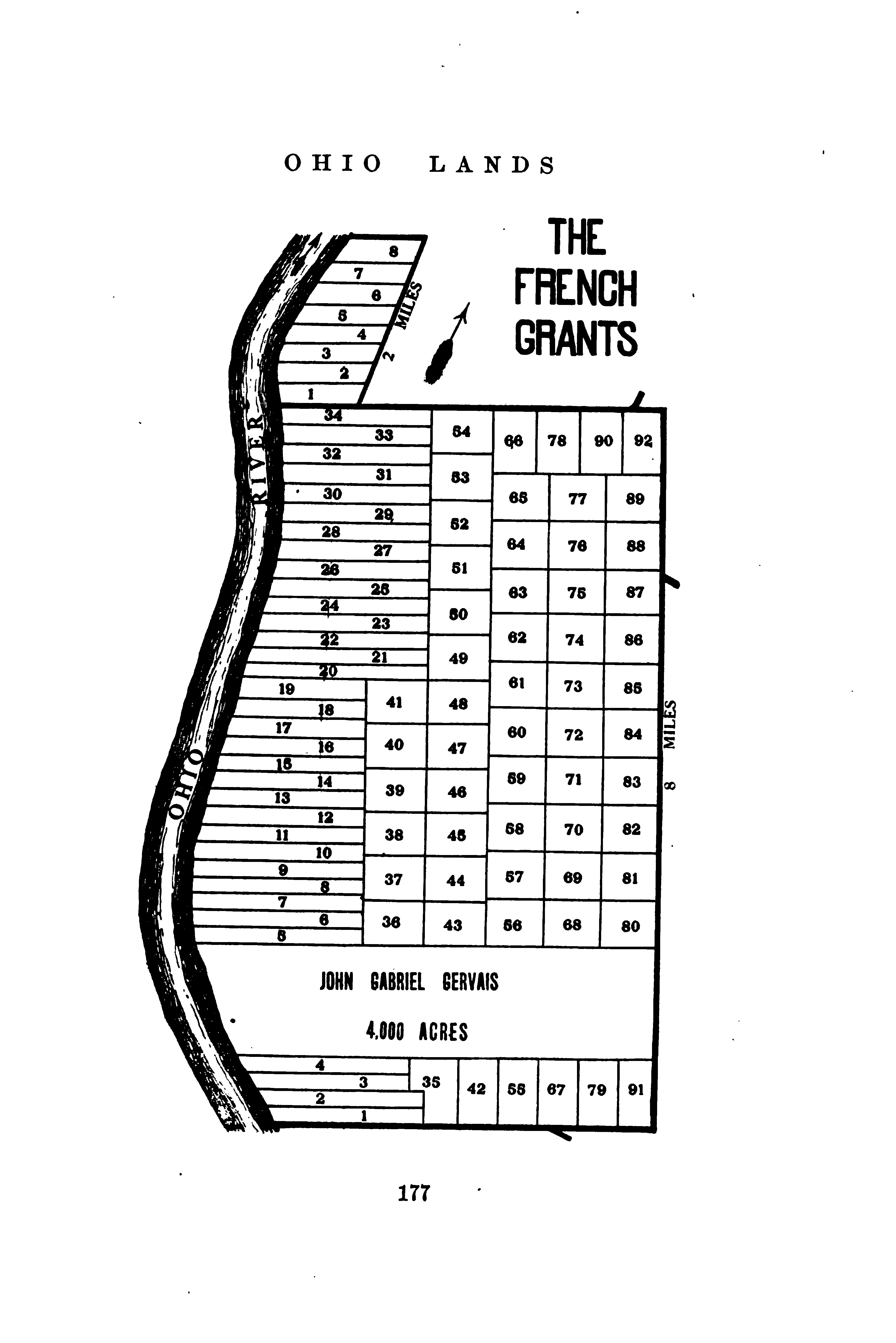 A land grant to settlers in 18th century southern Ohio called the French Grants